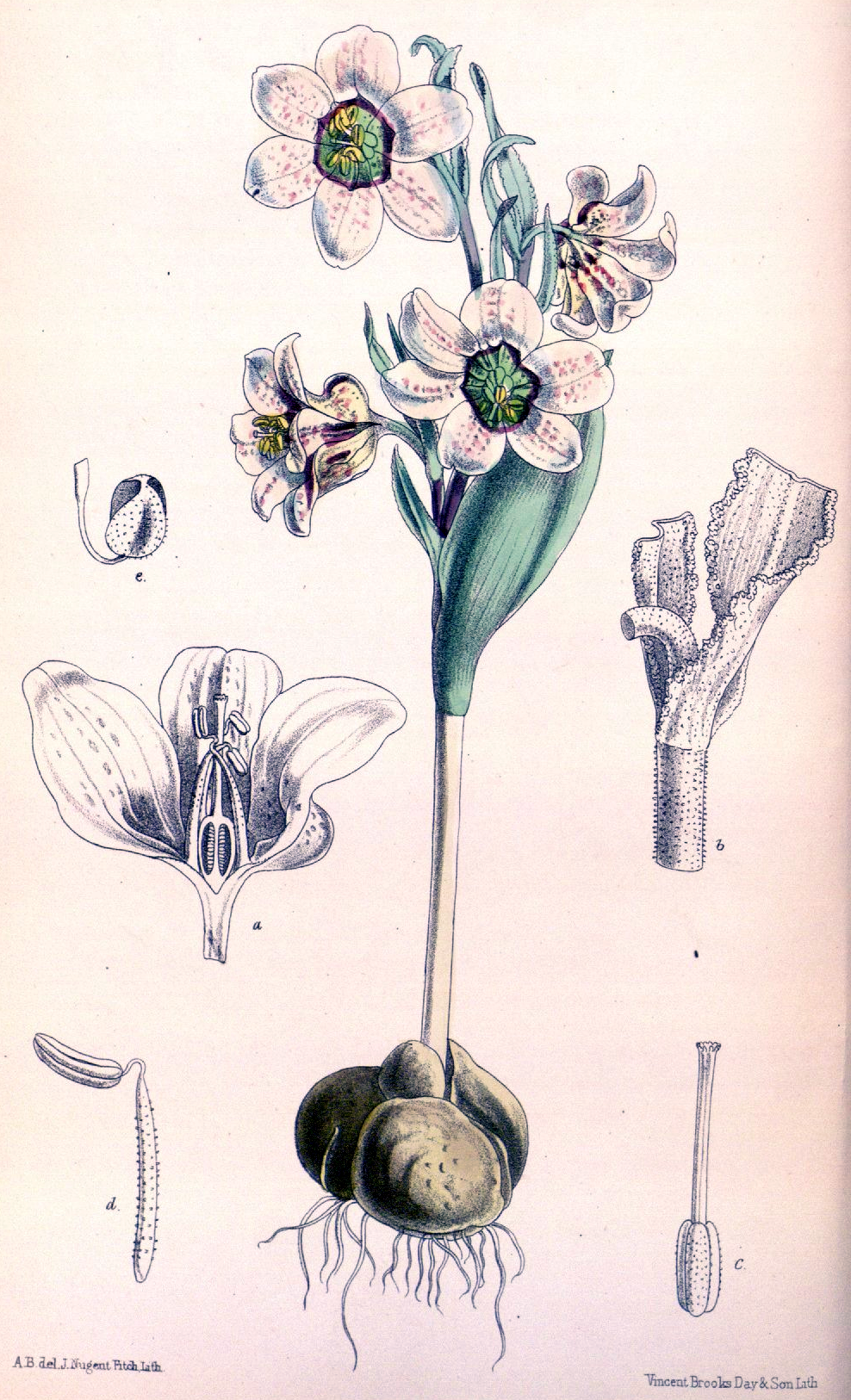 Fritillaria karelinii (subgenus Rhinopetalum)